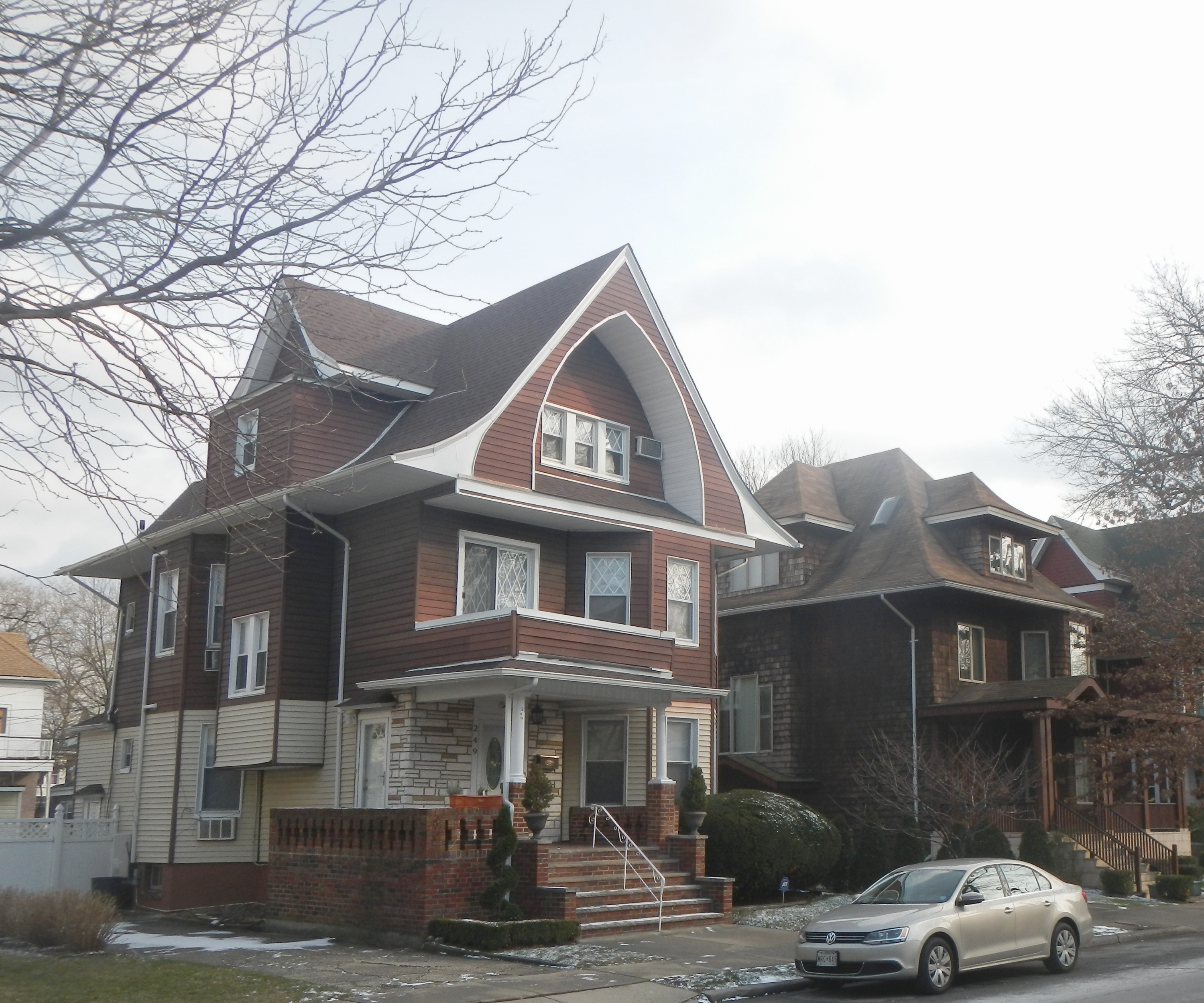 Looking southeast in Beverley Square West on a partly cloudy winter afternoon.